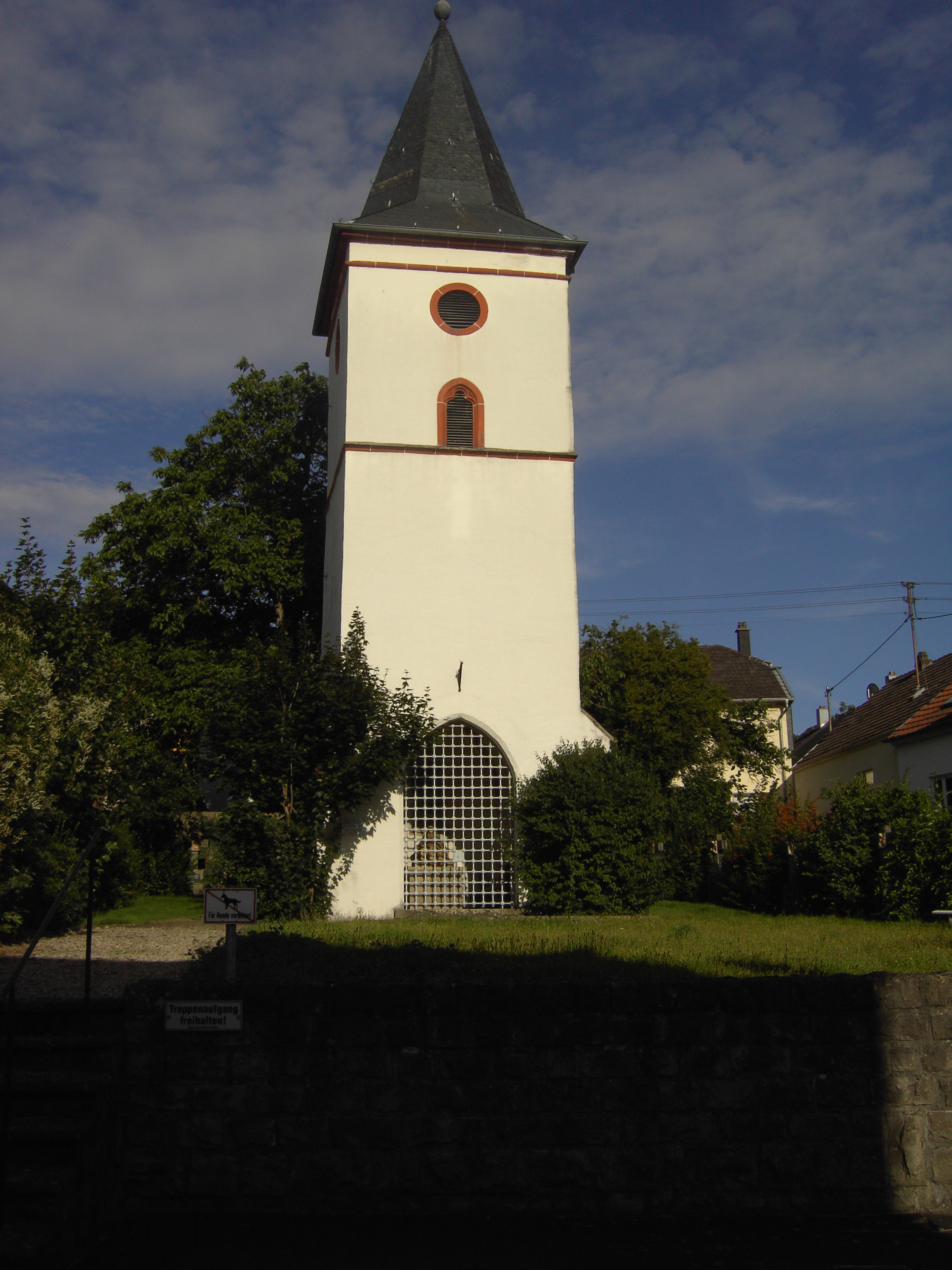 Irrel - Germany - Past Church